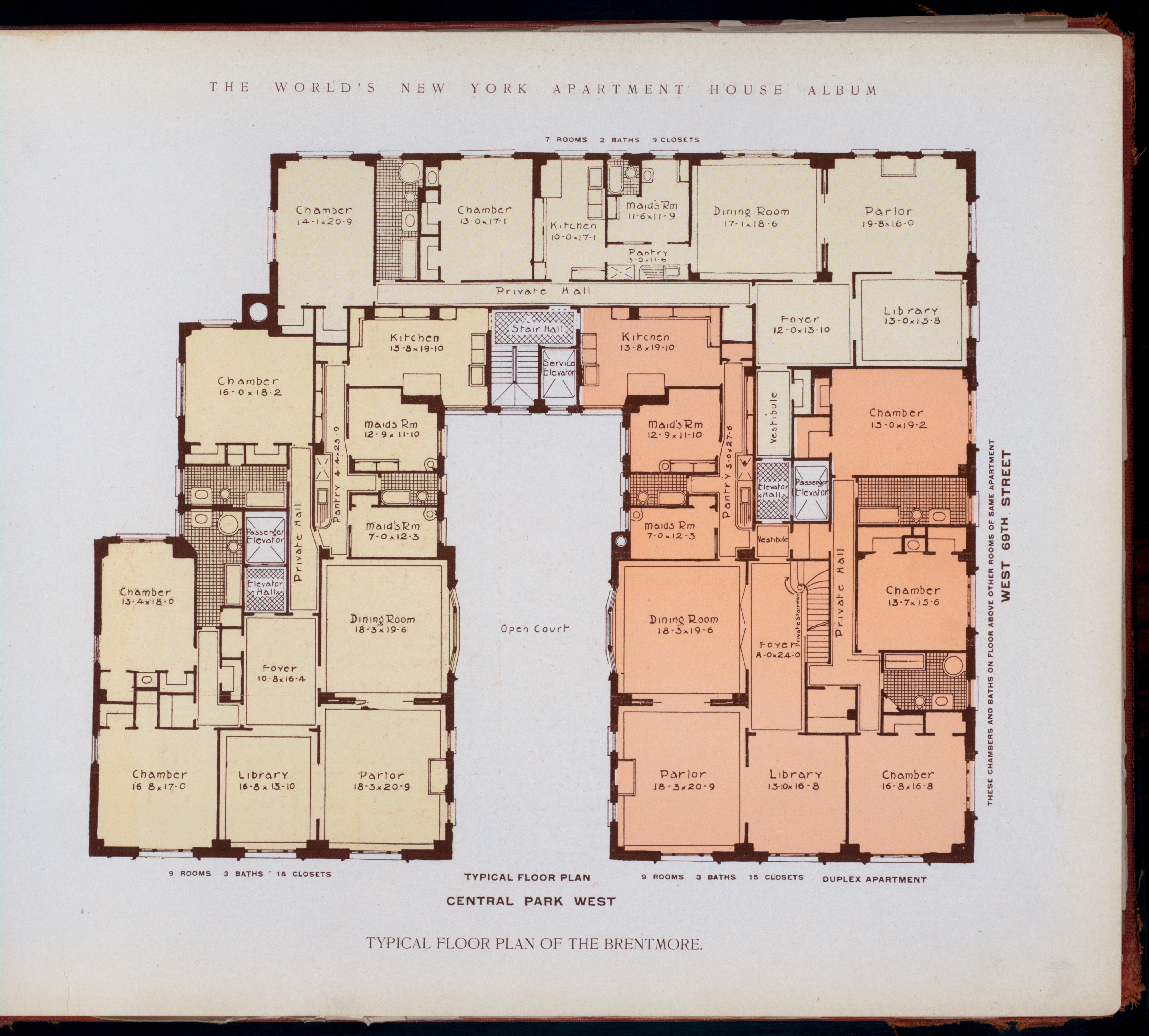 Typical floor plan of the Brentmore.